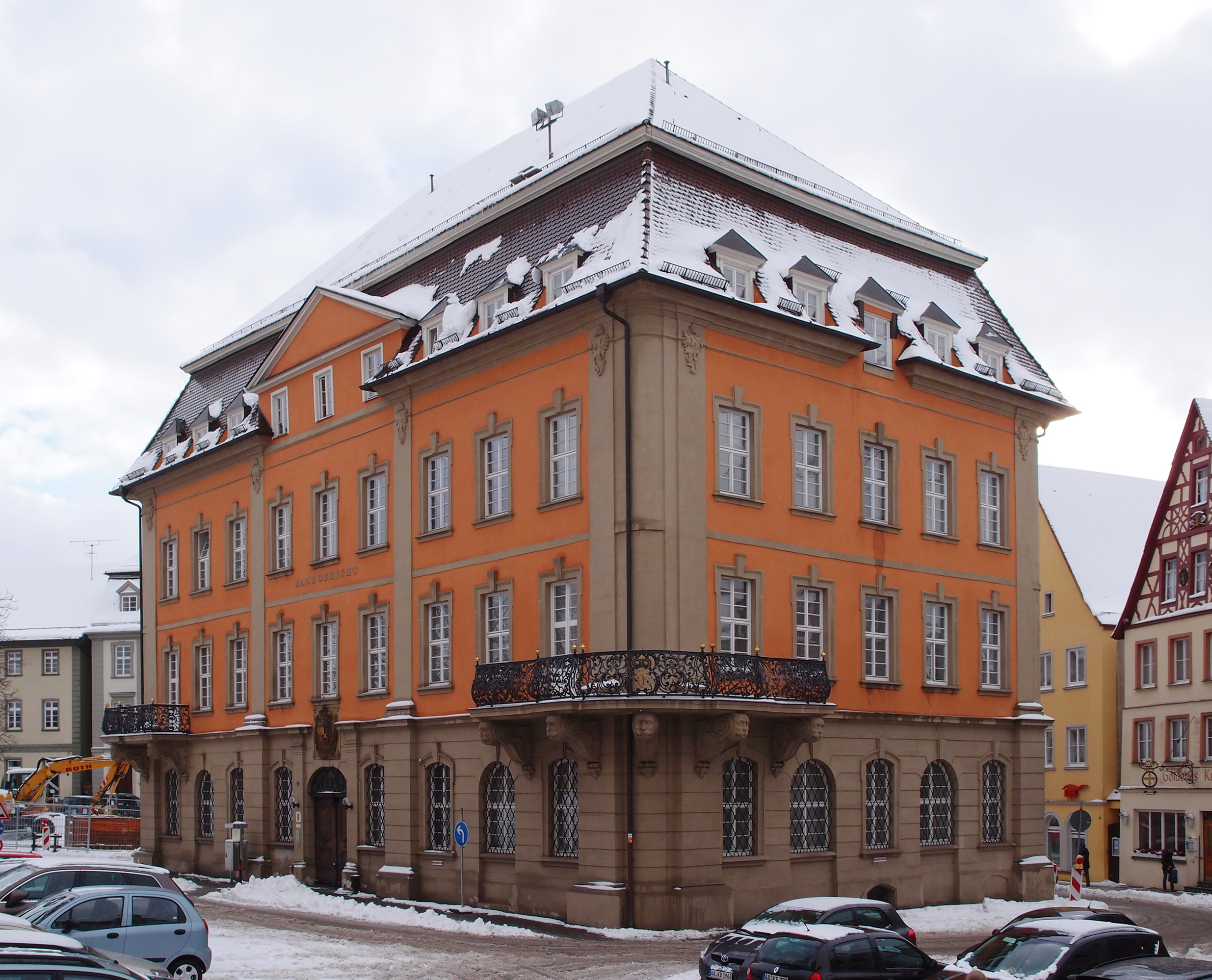 Ellwangen District Court